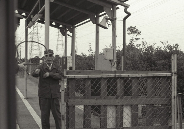 Token exchange at Kashima Seaside Railway Kamisu Station